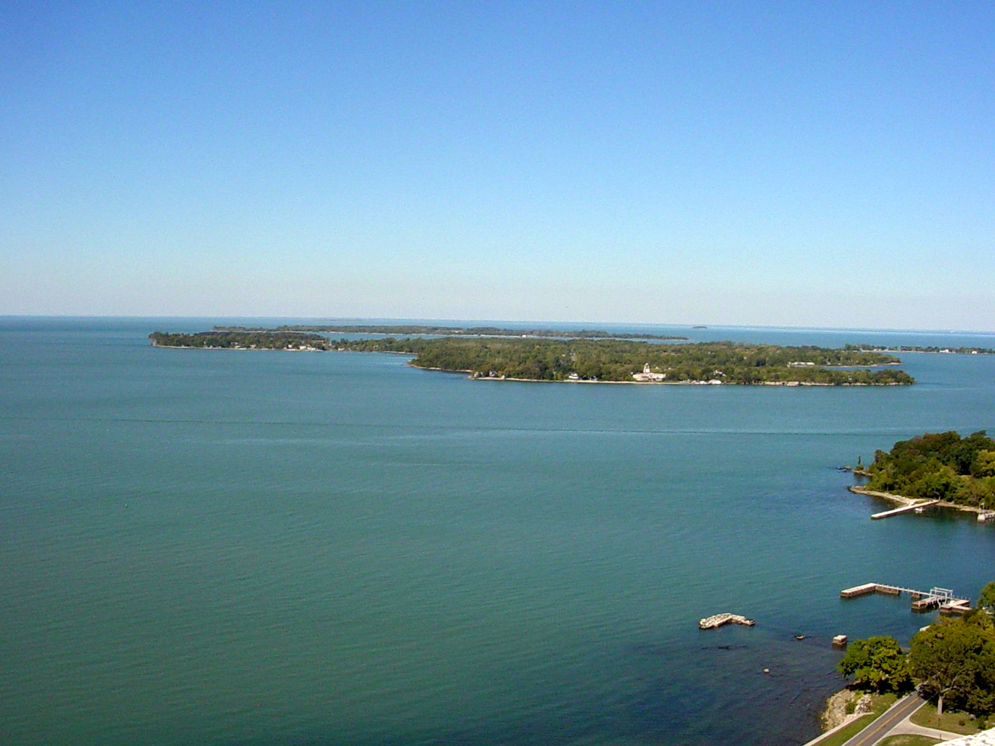 Lake Erie Islands. This was taken from atop the Perry's Victory and International Peace Memorial in the village of Put-In-Bay on South Bass Island. The view is facing North Looking at Middle Bass Island.